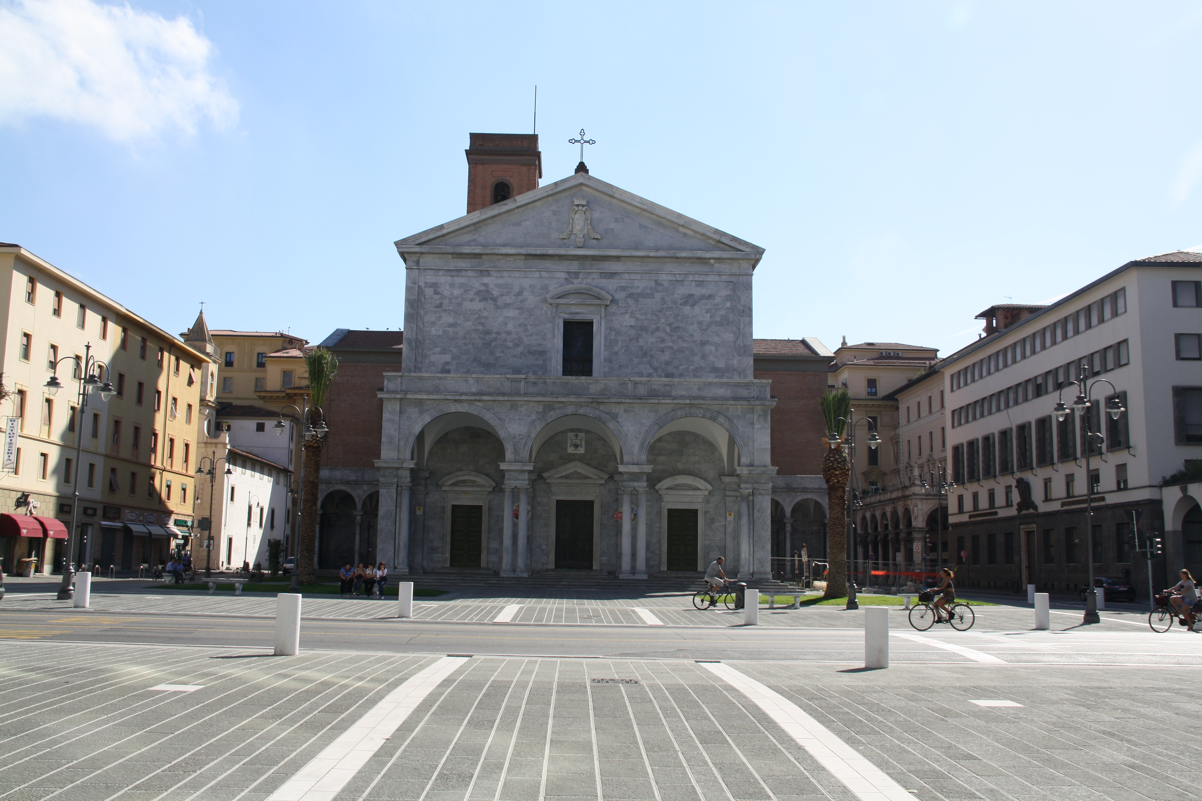 Italy, Livorno. Piazza Grande just restored.